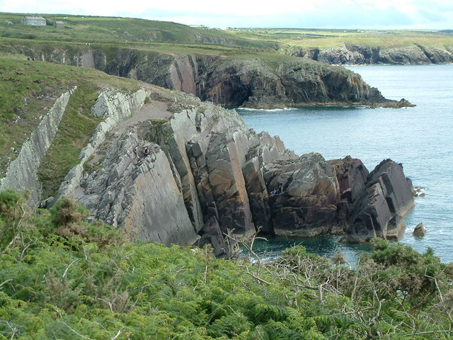 Cliffs at Porth Clais These cliffs are used by rock climbers for climbing and abseiling.